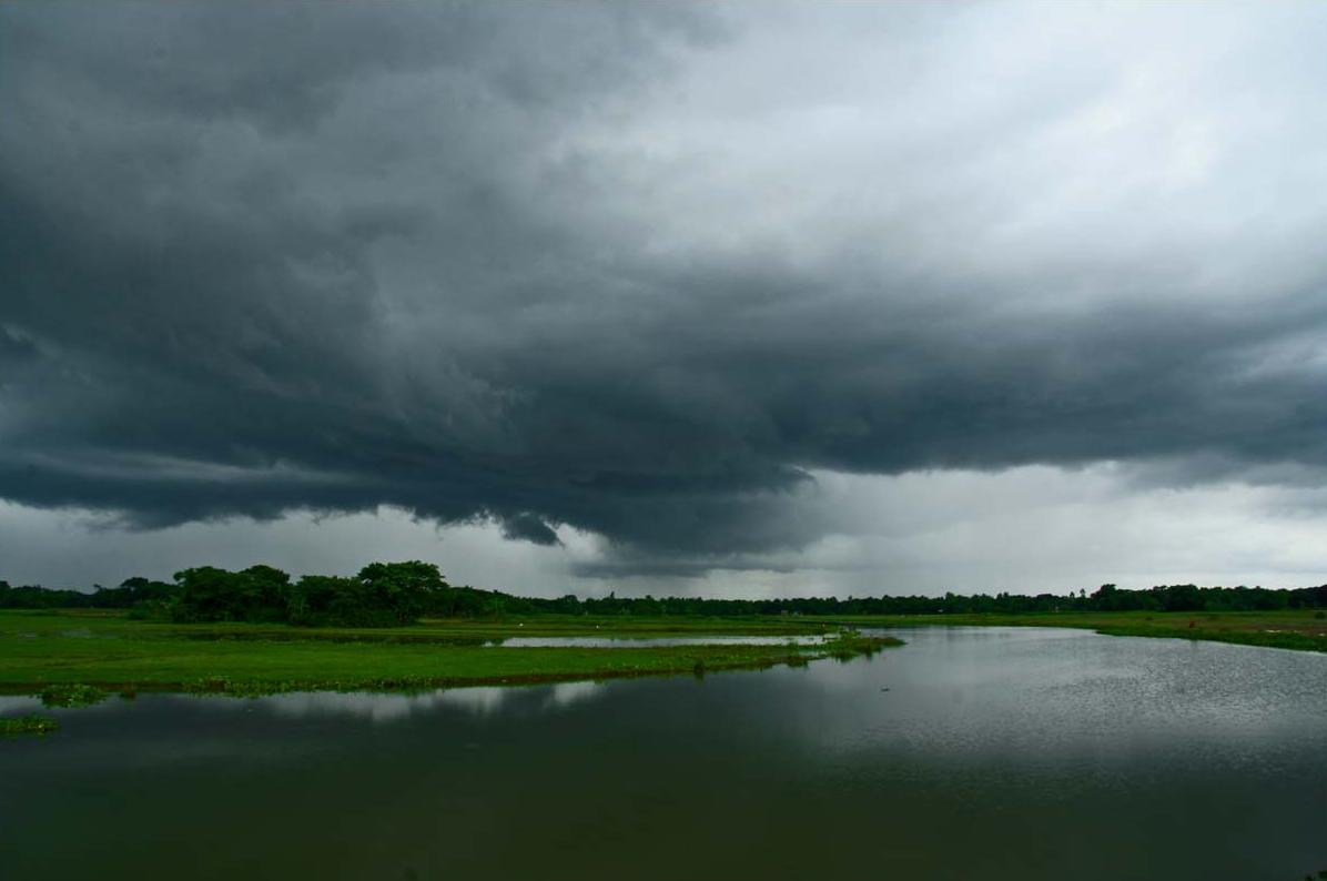 An image of a lake in Jagannathpur, Sunamganj in Sylhet, Bangladesh